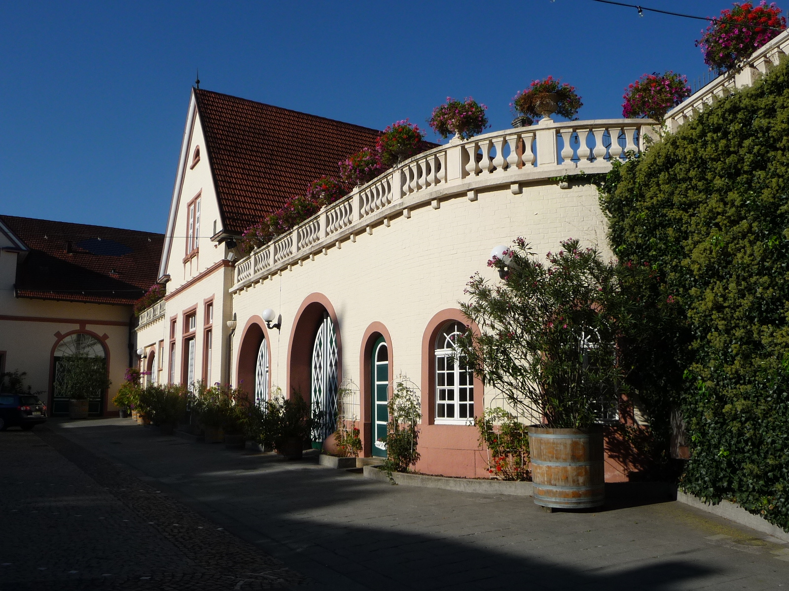 Schloss Wachenheim